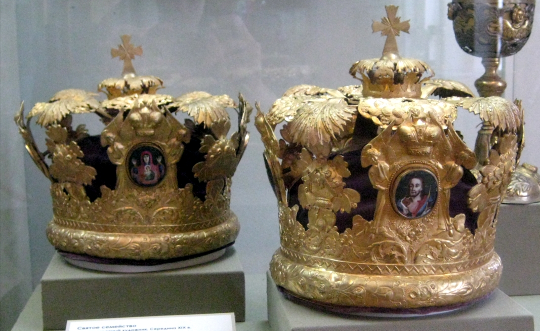 Crowns for russian orthodox wedding ceremony. Венцы брачные. 19 век, ГИМ